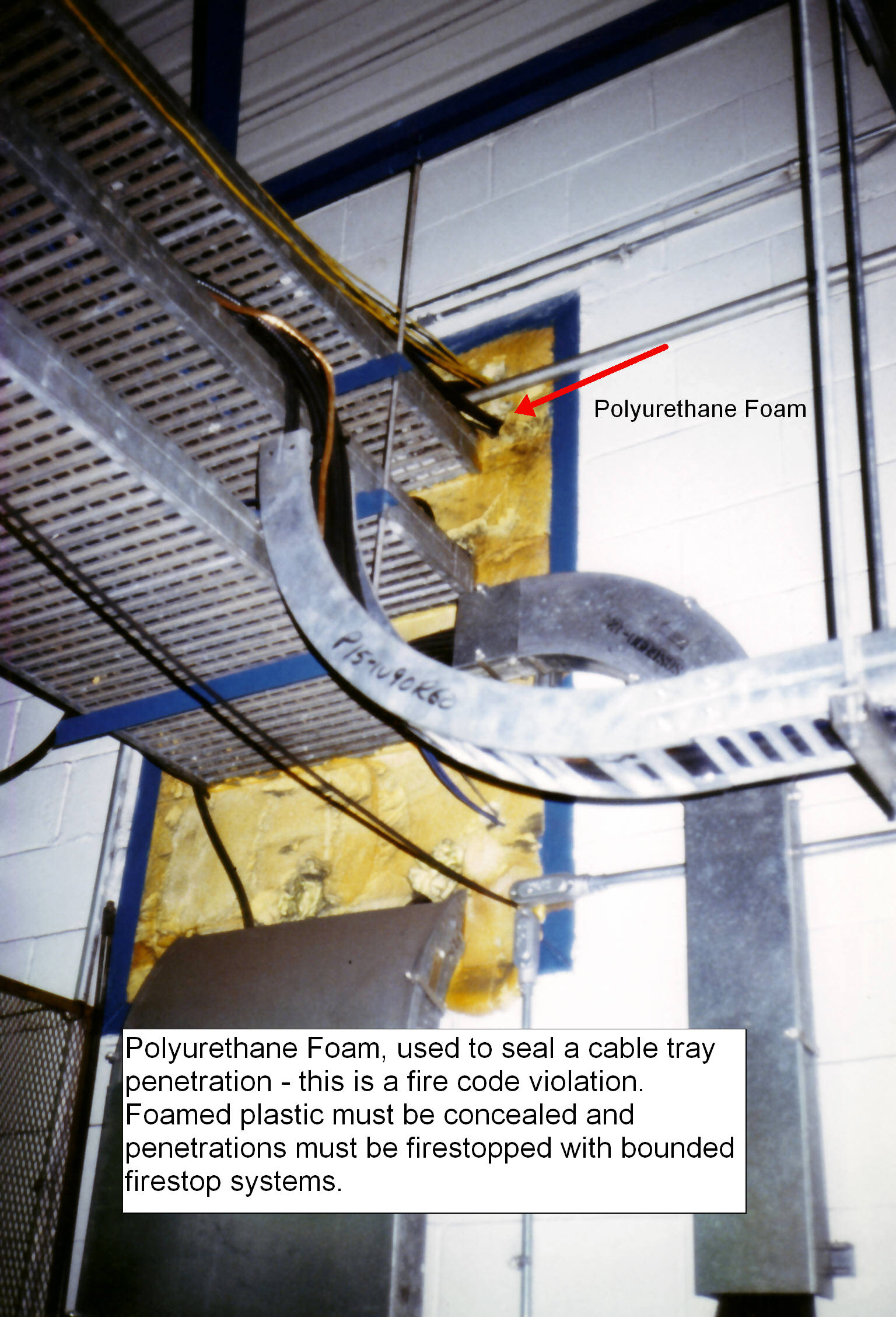 Polyurethane foam used to fill a cable tray penetration. At Browns Ferry Nuclear Power Plant, a seal of this nature, covered on both sides with two coats of a flame retardant paint was used instead of a bounded firestop. The foamed plastic caught on fire through exposure to a candle. The ensuing fire caused significant damage to the station. This picture was taken in a power plant in Nova Scotia, where it was subsequently removed and replaced with firestop mortar. The Browns Ferry fire caused significant remedial work to be conducted with all Nuclear Regulatory Commission licensees.